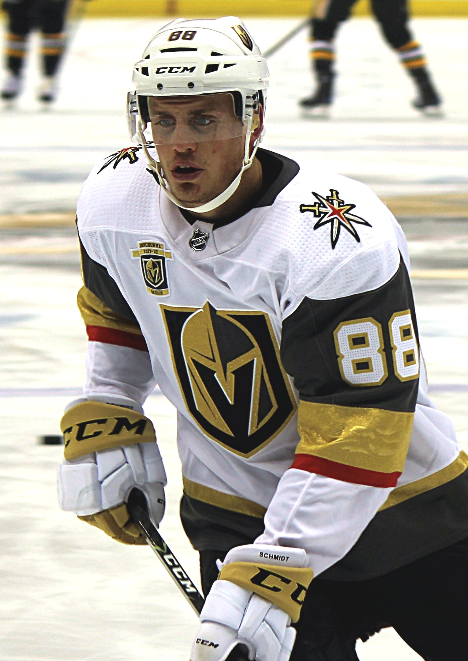 Vegas Golden Knights defenseman Nate Schmidt during a game against the Pittsburgh Penguins, February 6, 2018, at PPG Paints Arena in Pittsburgh, PA.